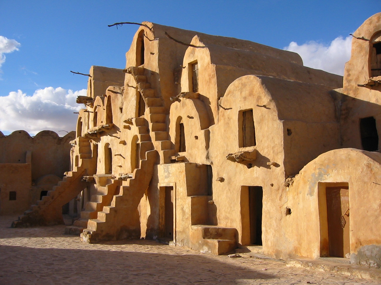 Ksar Ouled Sultane, near Tataouine, Tunisia